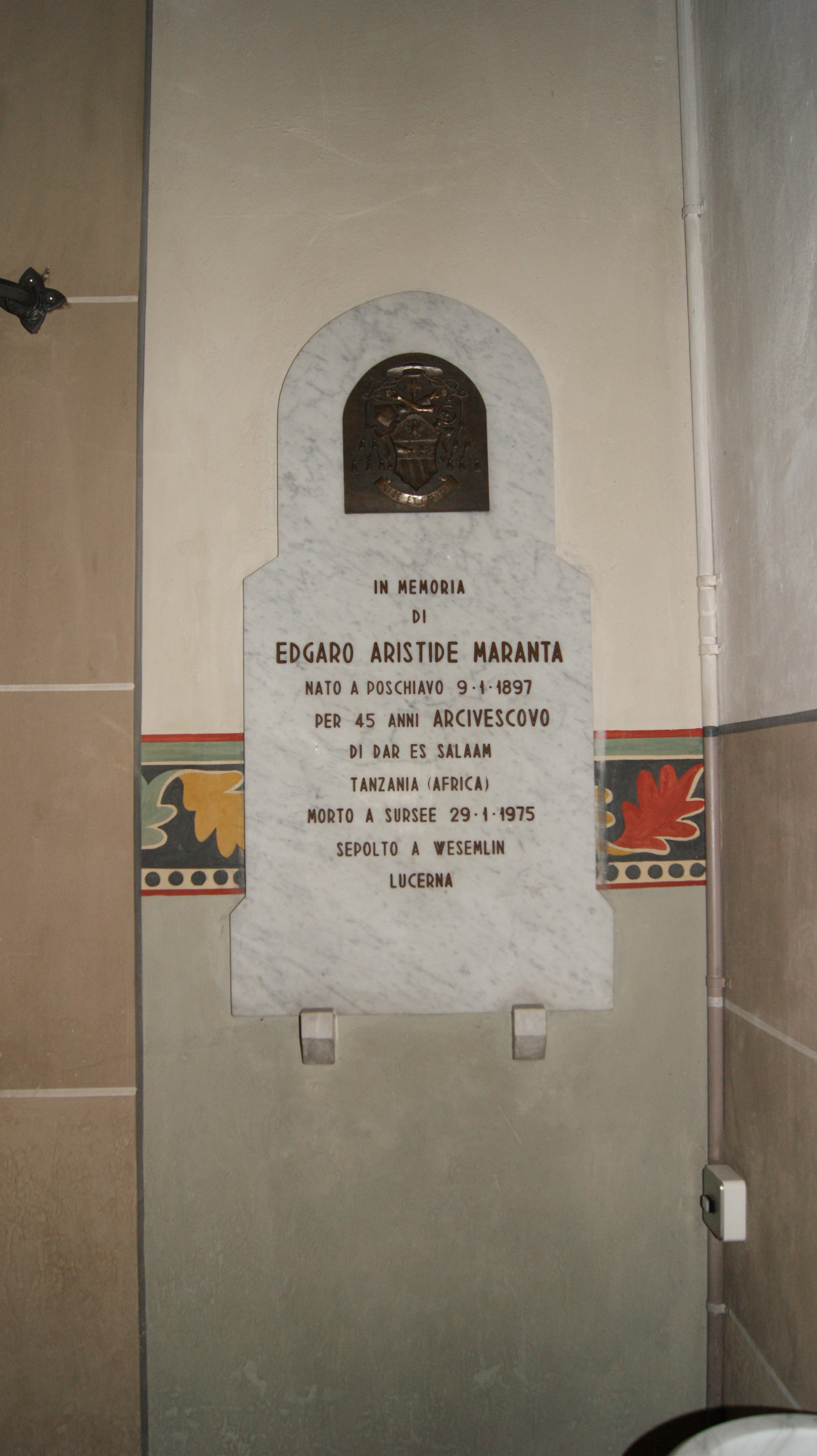 Catholic Collegiate Church of St. Victor / Chiesa collegiata cattolica di San Vittore in Poschiavo, Grisons, Switzerland. Memory of the Archbishop of Dar es Salaam (Tanzania), Edgaro Aristide Maranta.